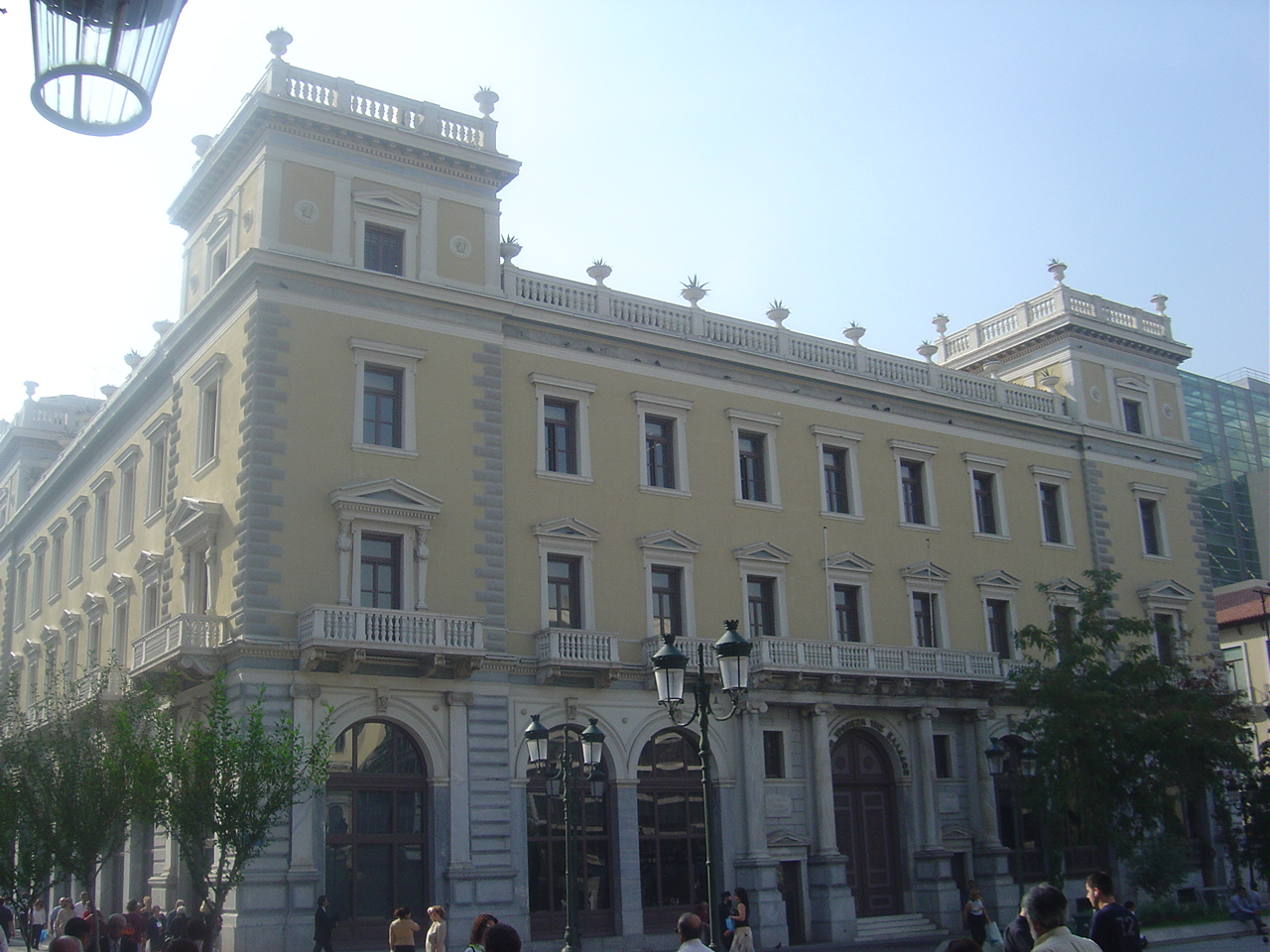 Mela Building in Kotzia square, Athens. Built in 1874 by Ernst Ziller (1837 - 1923)